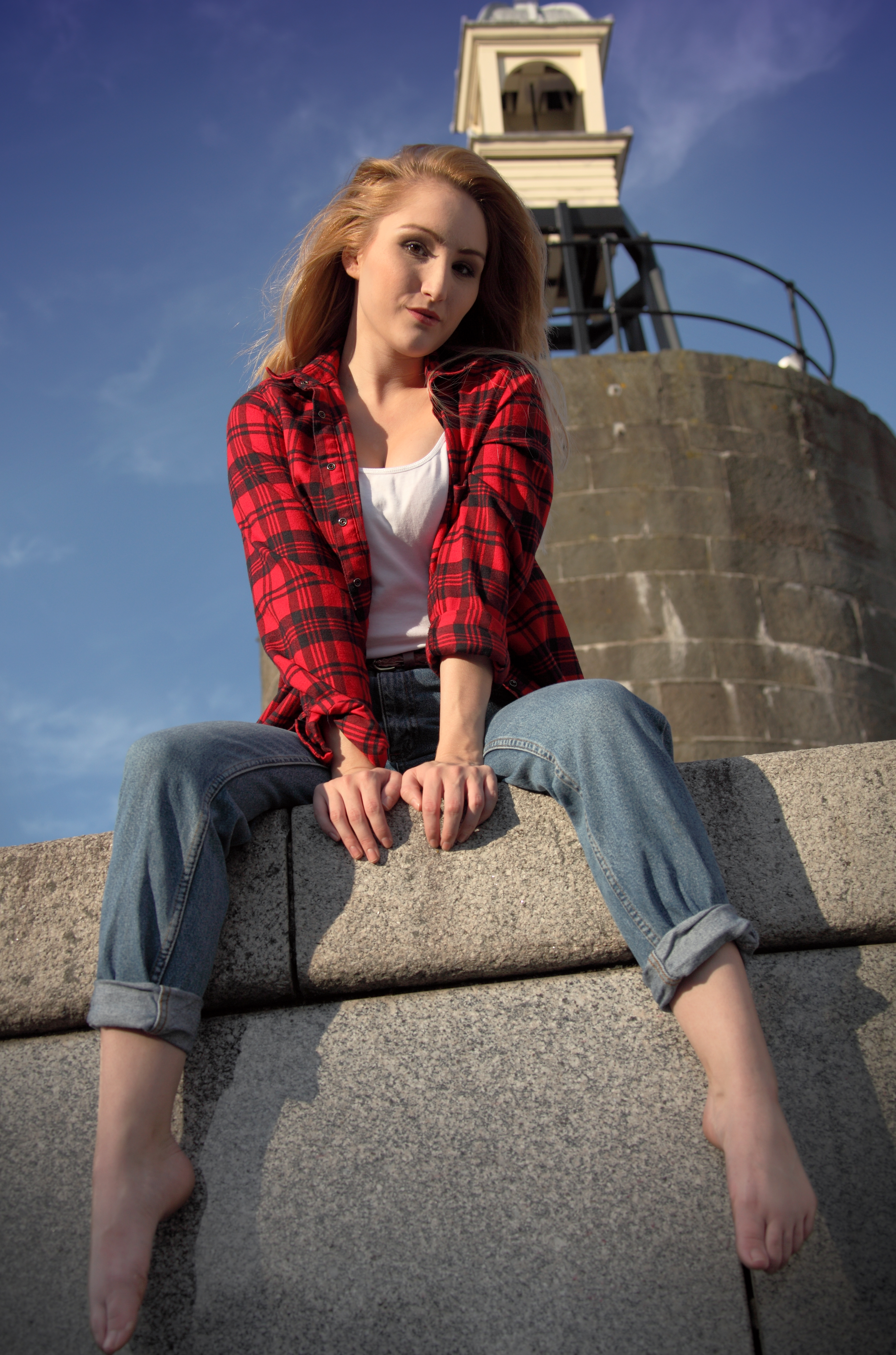 The lovely Rachelle Summers popped into Bristol for an hour on Wednesday evening and did a fantastic job of modelling under slightly difficult circumstances. I hope she is as pleased with the results as I am